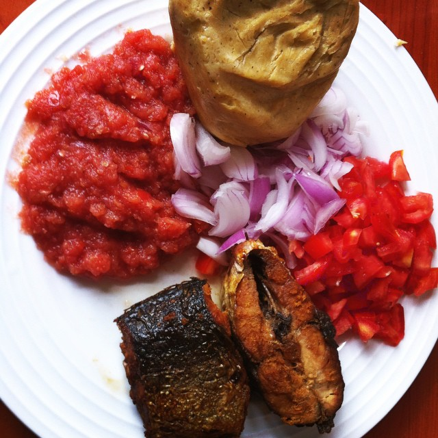 Fanti Kenkey with grounded pepper and fish